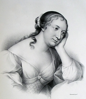 Marie-Madeleine Pioche de La Vergne, comtesse de La Fayette (baptized 18 March 1634 – 25 May 1693)